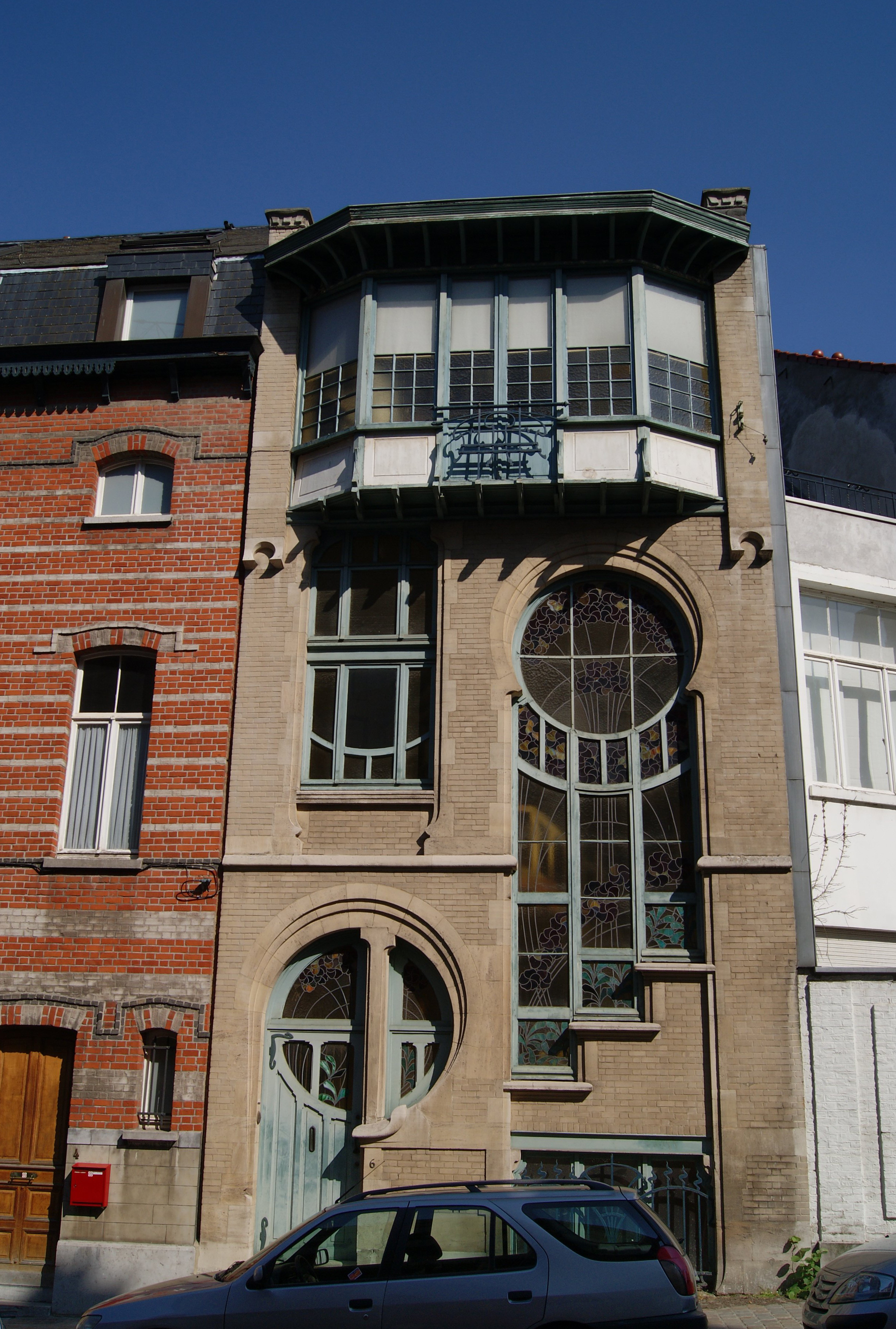 Former studio and home for Clas Grüner Sterner. Built in 1902 by Ernest DeLuna. Style: Art Nouveau. Address: Rue Du Lac 6 Rue De La Vallee 5, Ixelles, Brussels, Belgium. page 59.